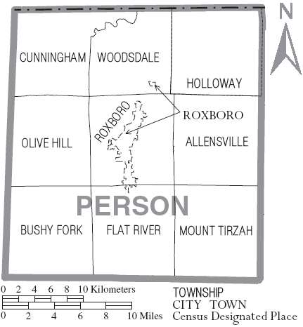 Map of Person County, North Carolina, United States with township and municipal boundaries